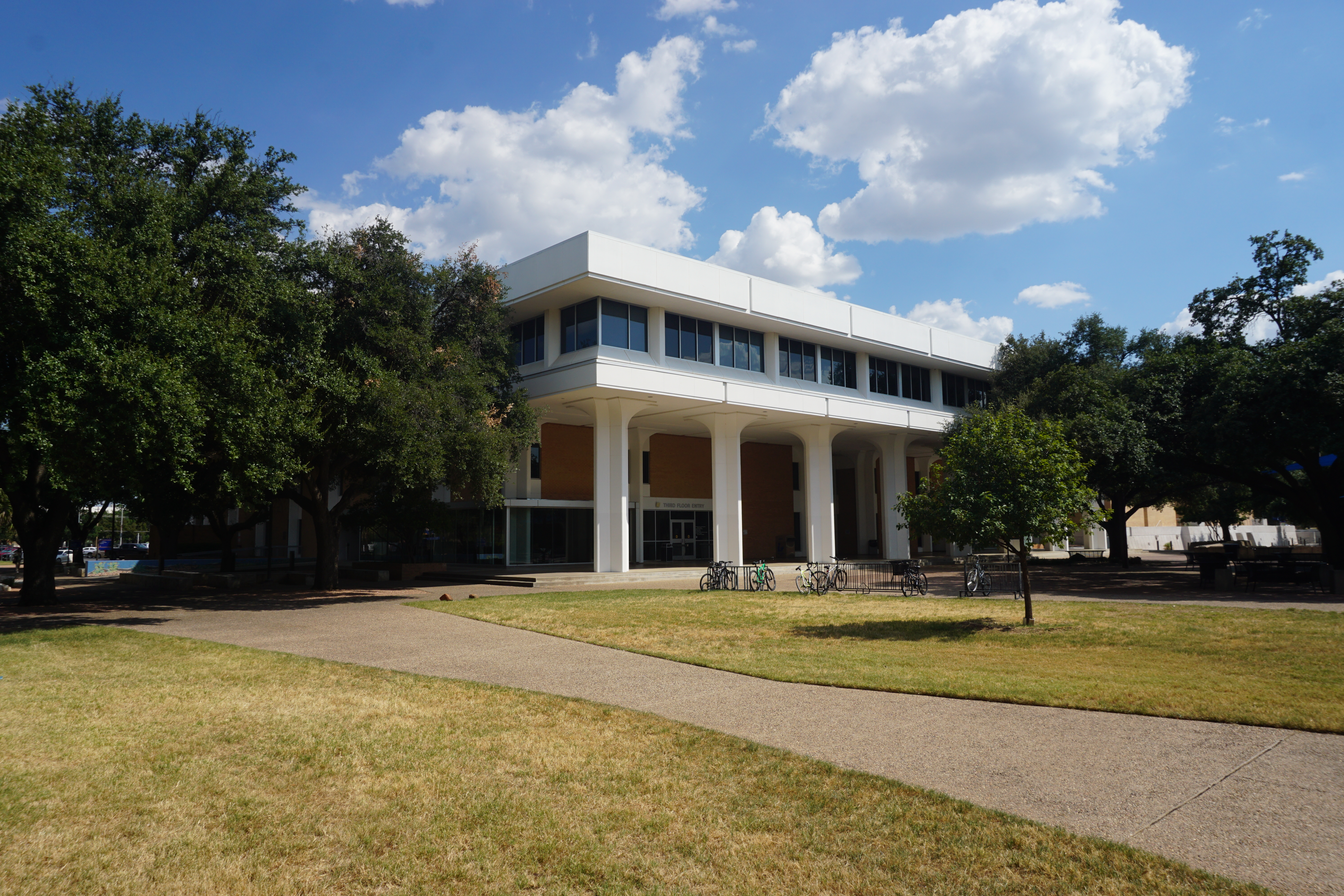 The Porter Henderson Library on the campus of Angelo State University in San Angelo, Texas (United States).